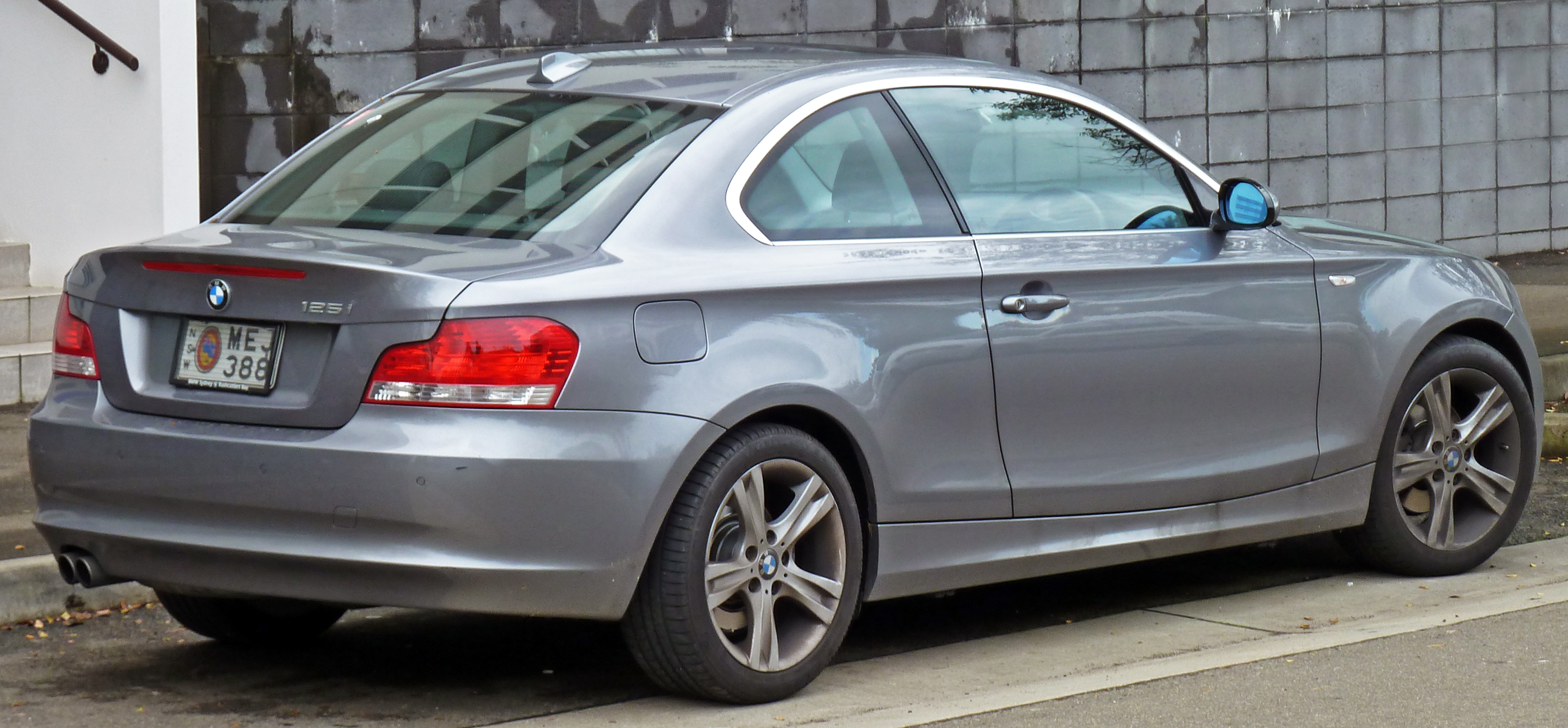 2008–2010 BMW 125i (E82) coupe. Photographed in Zetland, New South Wales, Australia.